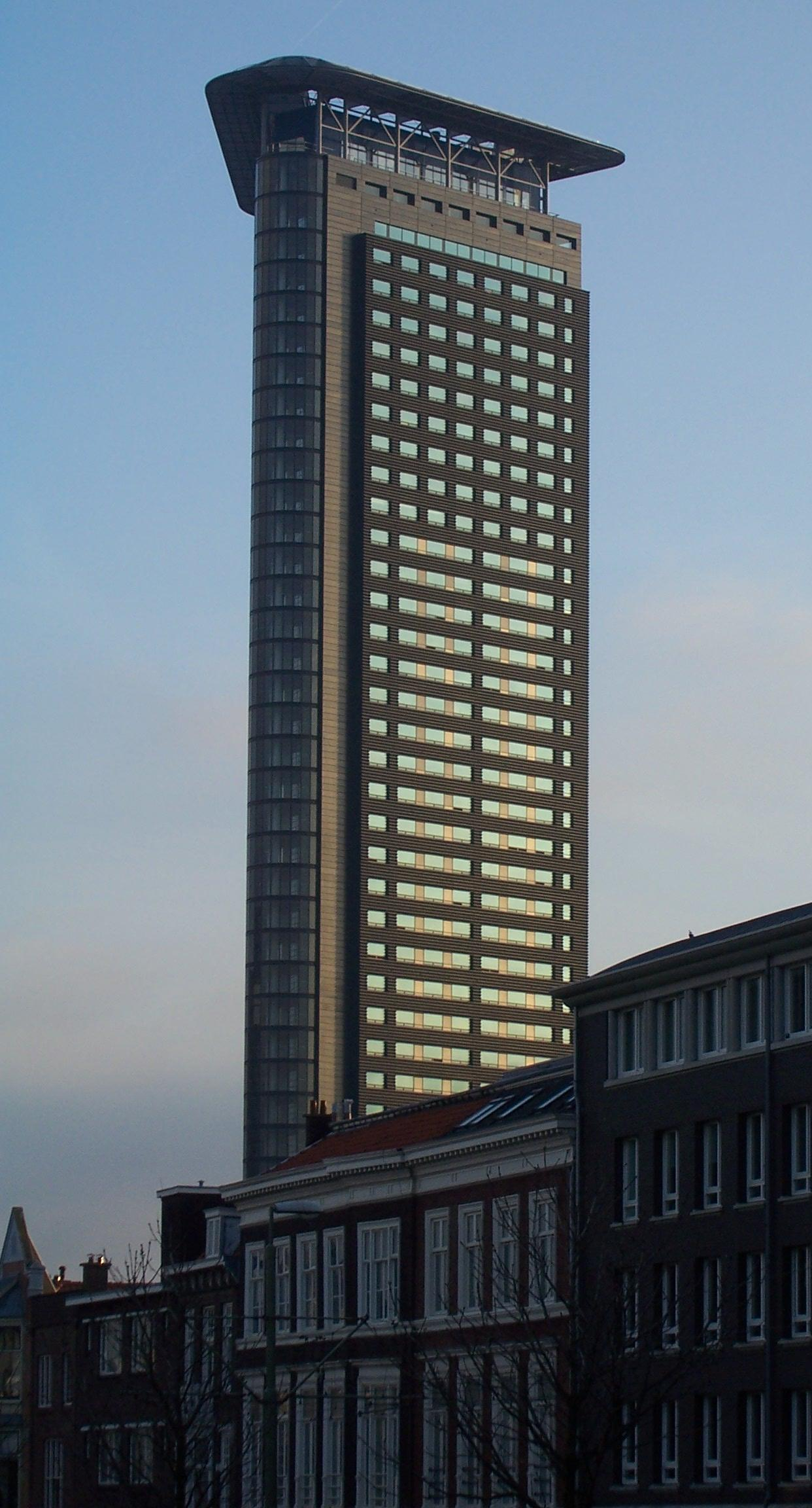 Het Strijkijzer in The Hague, one of the tallest buildings of this city.